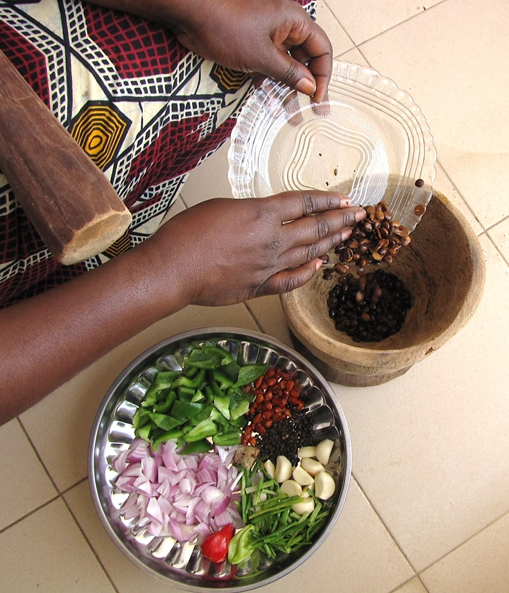 Loading the mortar to make 'nokos' called 'stuffing' - a mash of ingredients either used as stuffing in chicken or fish or in this recipe added directly to a sauce after mashing. Here, starting with rinsed, fermented locust bean (Parkia biglobosa): to follow (shown chopped to add to the mortar): green onion, garlic, onion, dried black pepper, dried capsicum, fresh green bell pepper, red and yellow peppers (capiscum).